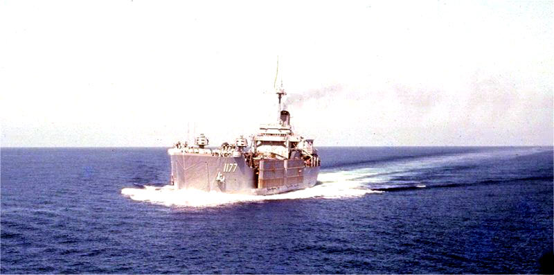 USS Lorain County (LST-1177) approaching the USS Rankin (AKA-103) while underway in the Caribbean Sea, 12 May 1963. Official US Navy photo taken from